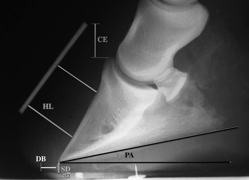 Various measurements to determine severity of laminitis. CE: coronary extensor distance; HL: Horn:Lamellar distance; SD: sole depth; DB: digital breakover; PA: palmar angle